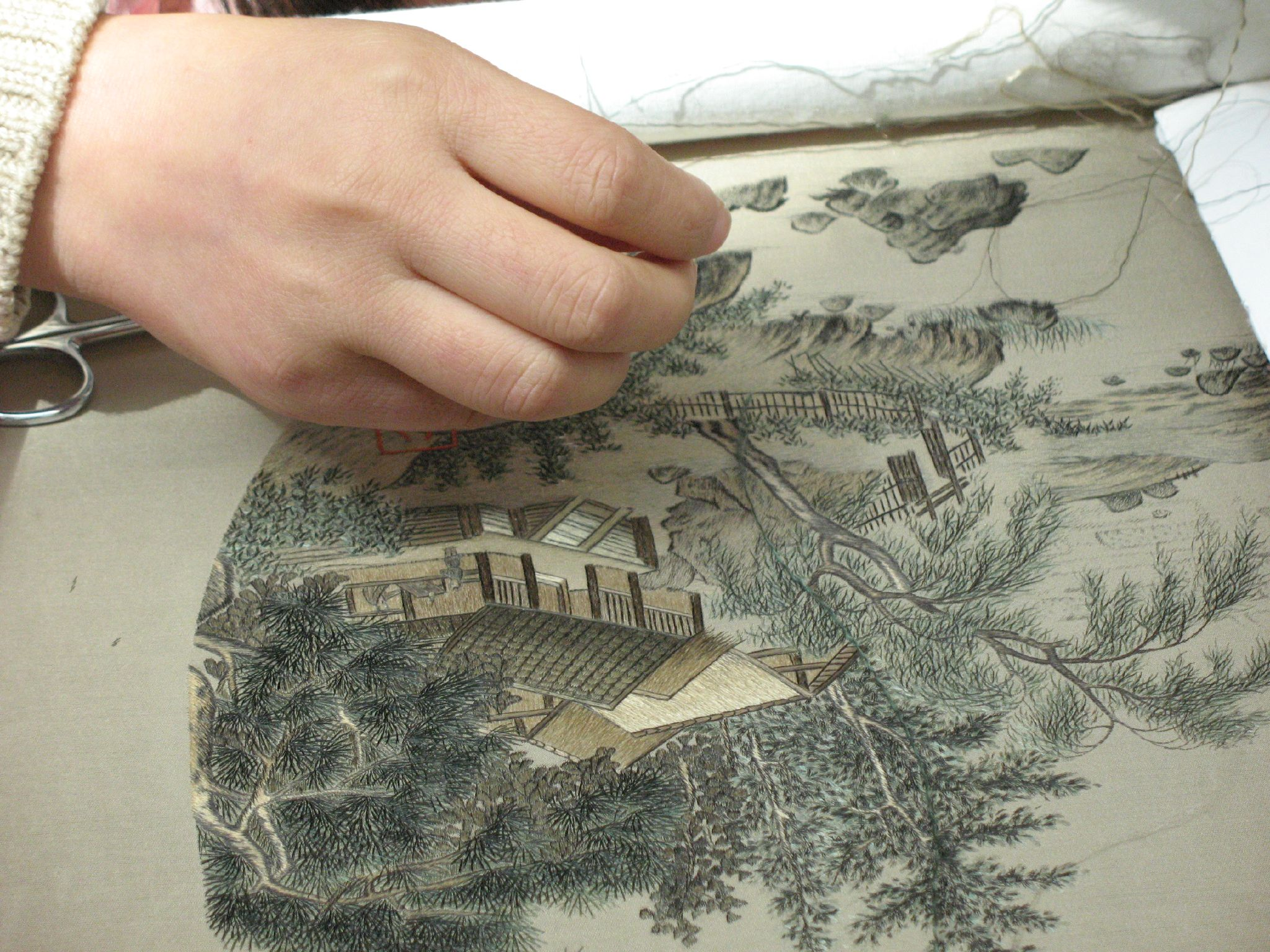 Gu Embroidery, which began with a Gu family in Suzhou, women recreate tradtional Chinese paintings in embroidery.